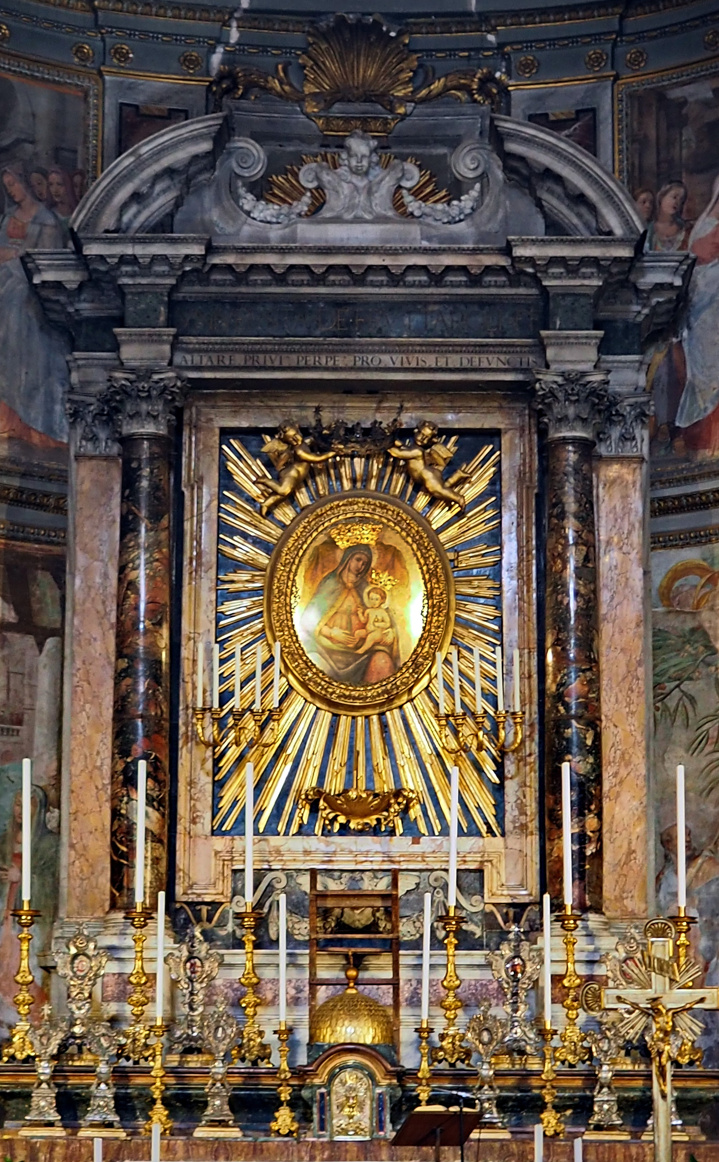 Santa Maria del Orto (Rome); Altar;Giacomo della Porta